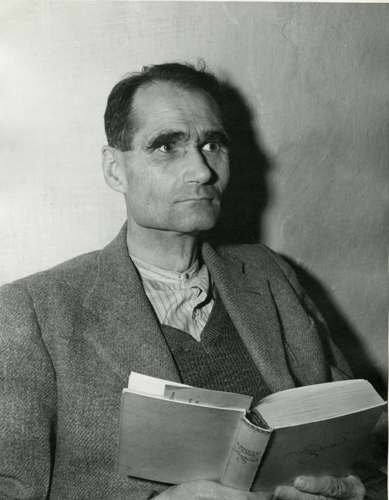 Defendant Rudolf Hess reads "Jugend" by Ernest Glass in his cell at the Nuremberg prison while on trial before the International Military Tribunal.